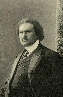 Nikolai Yevgenyevich Markov